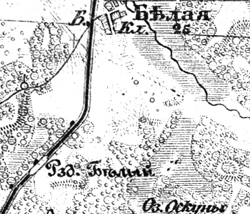 Bila Station (Bile) on the map "Военно-топографическая карта Российской Империи" (known as "Schubert's map"), XX 5, 1866-1887 (issued in 1913).